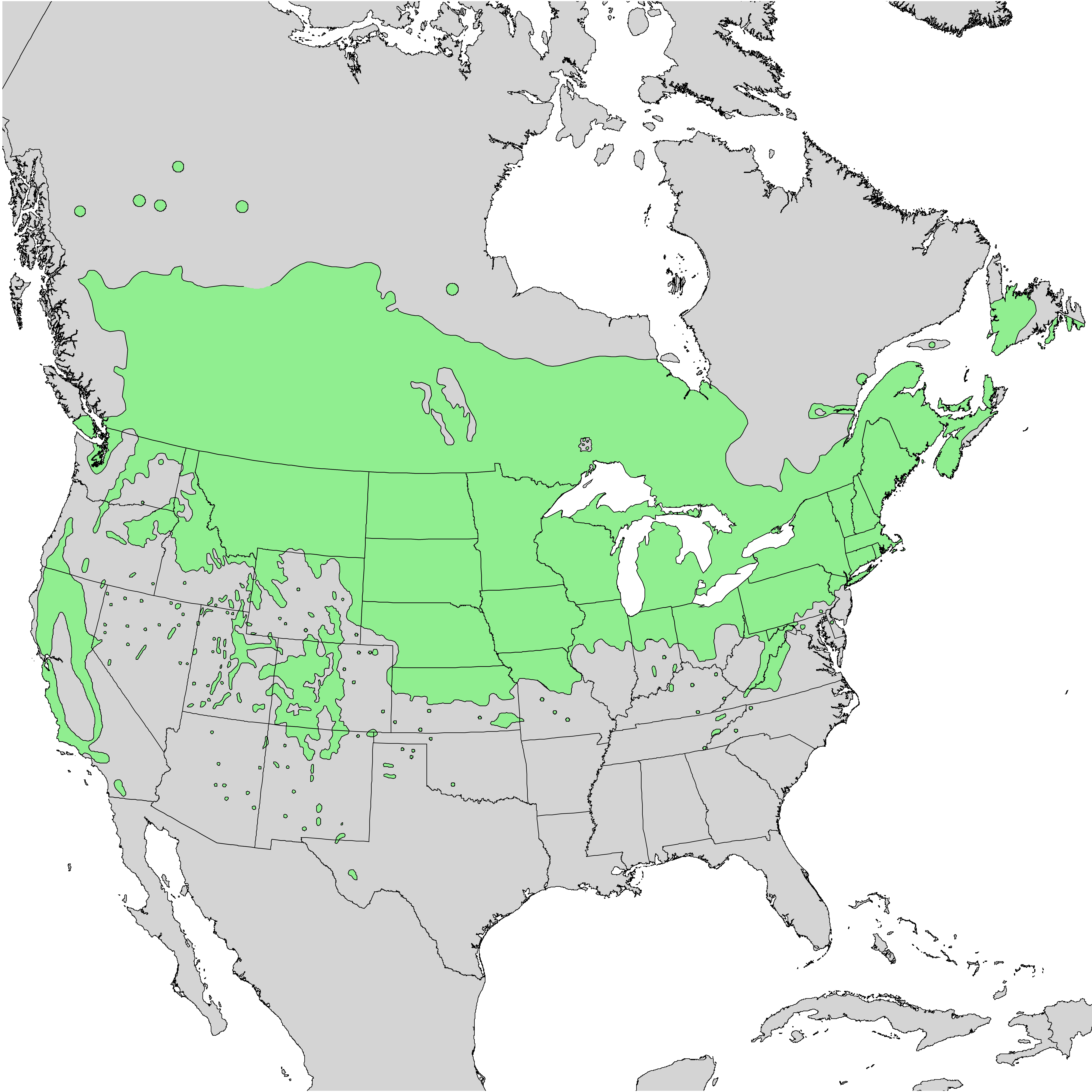 Natural distribution map for Prunus virginiana - common chokecherry